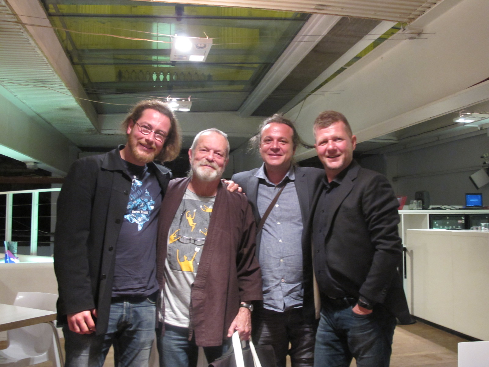 Ondřej Beránek with Terry Gilliam, Jakub Fabel and Marcel Kral at ICA London 2017